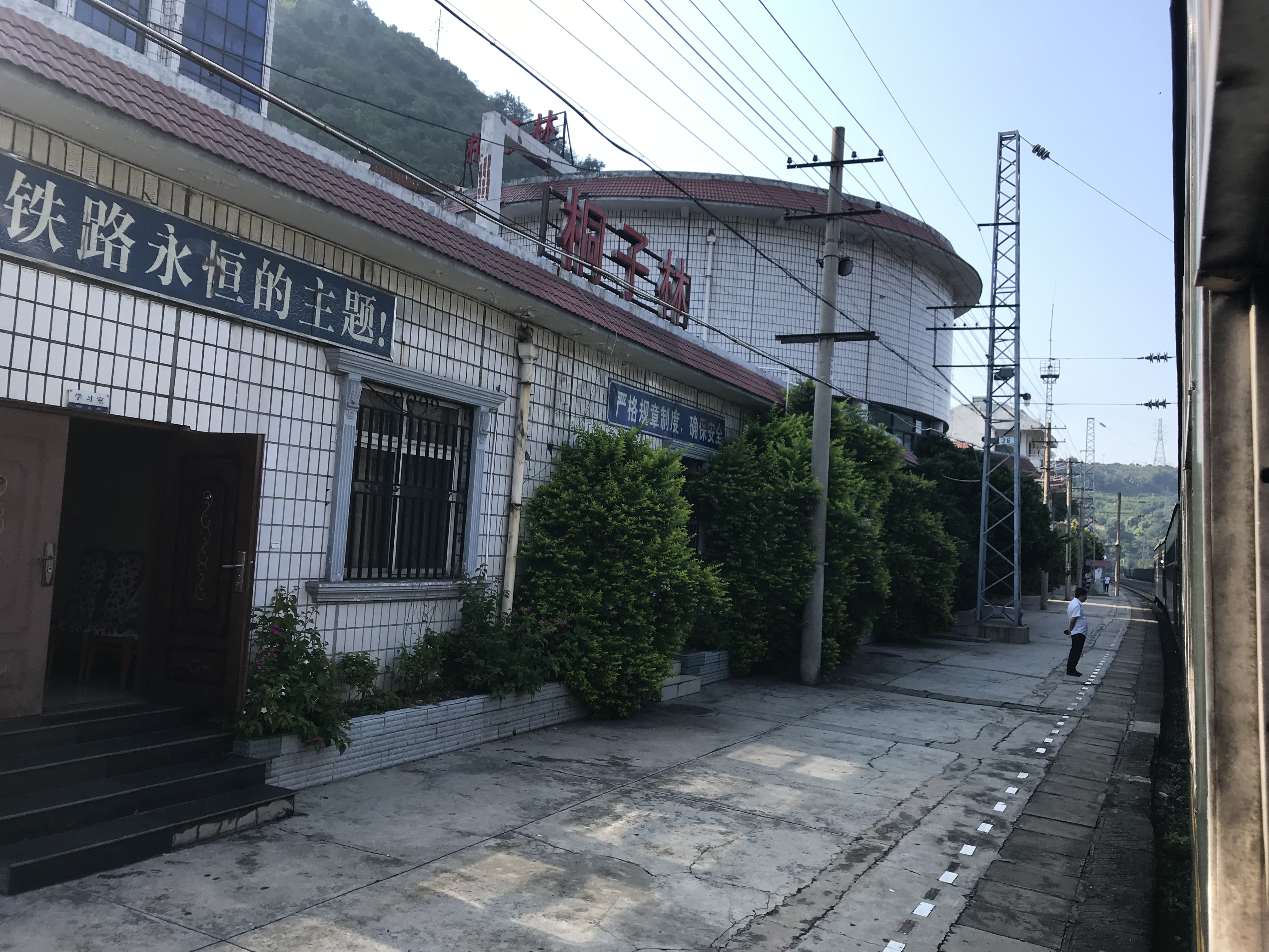 201908 Station Building of Tongzilin (1)